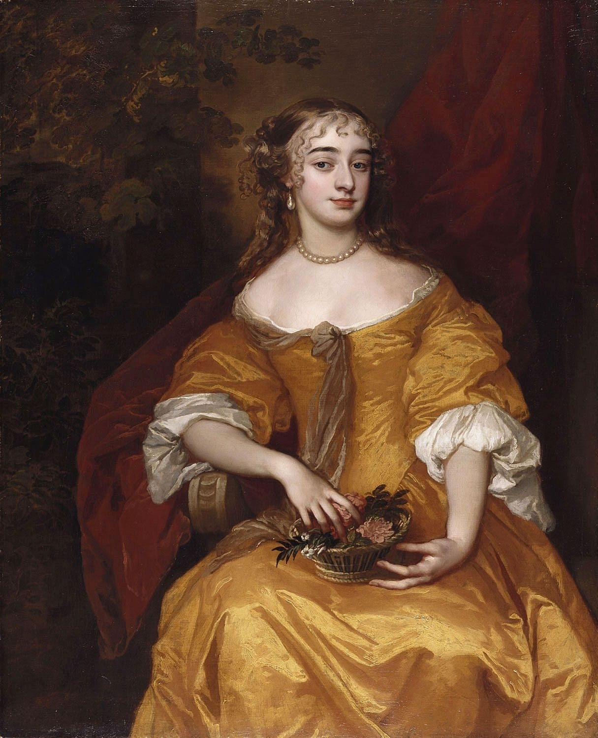 Margaret Brooke, Lady Denham was the daughter of Sir William Brooke, and sister of Frances Brooke. In 1665 she married Sir John Denham but soon became known as the Duke of York's mistress.